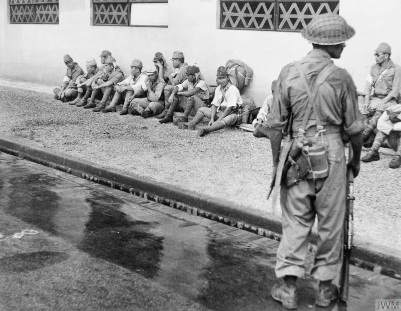 A soldier from the 5th Indian Division stands guard over Japanese prisoners outside their former headquarters in Singapore.